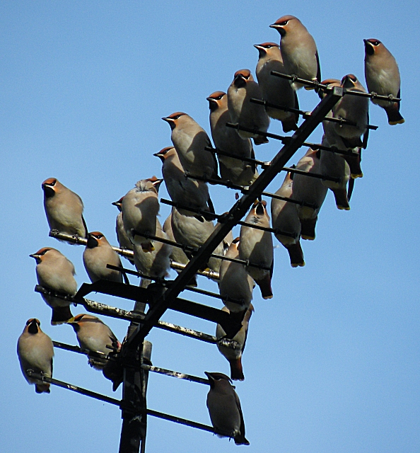 Waxwings (Bombycilla garrulus) A TV aerial provided a handy perch for a flock of Waxwings, not long arrived from Scandinavia. These are regular visitors to this area, seen in most winters.